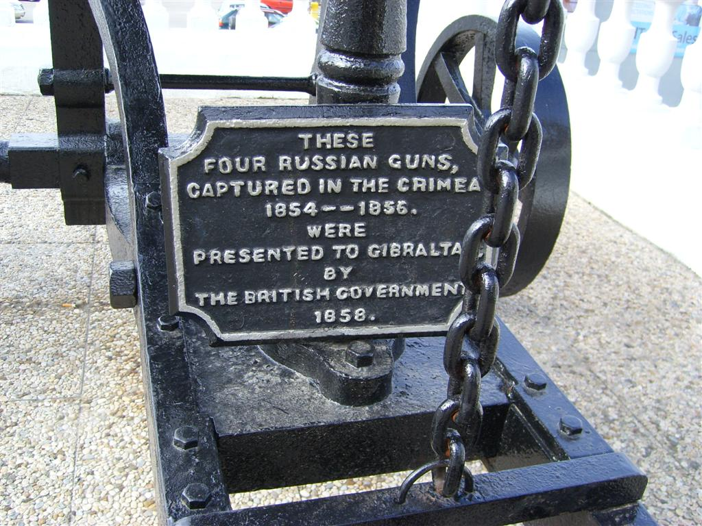 Sign on one of two Russian guns from the Crimean War presented to Gibraltar (located in Line Wall Road) by the British Government in 1858.